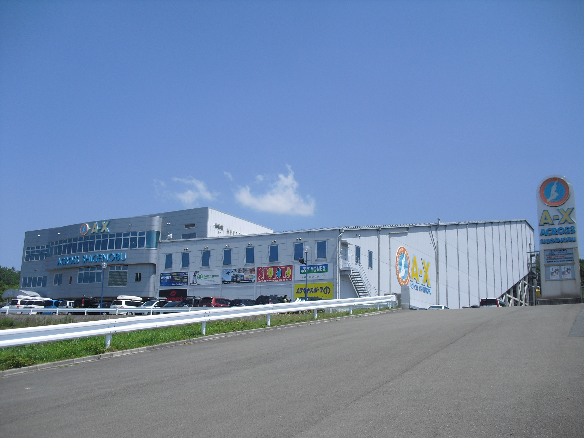 Across Shigenobu